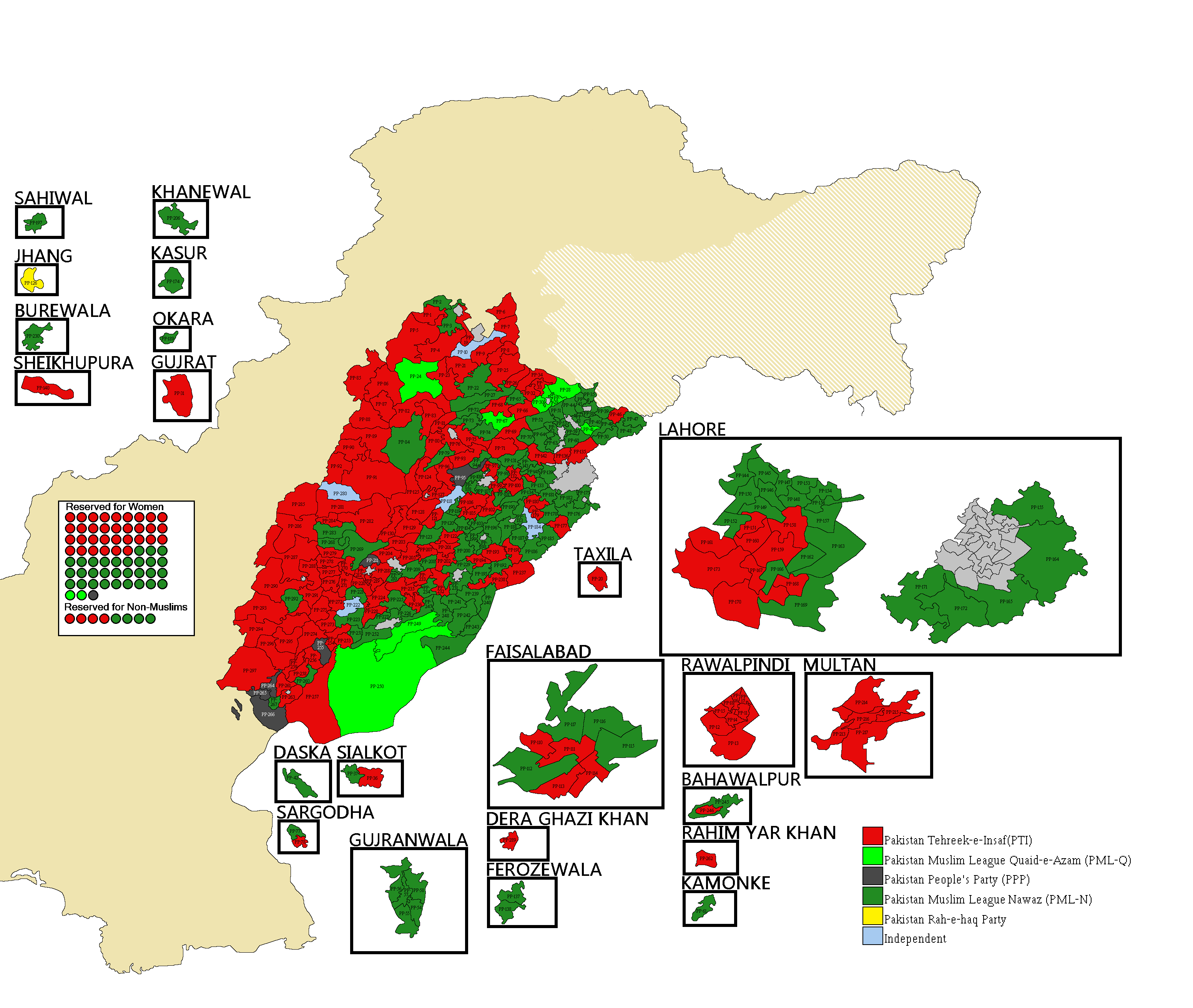 Map of The Punjab Showing Assembly Constituencies and winning parties